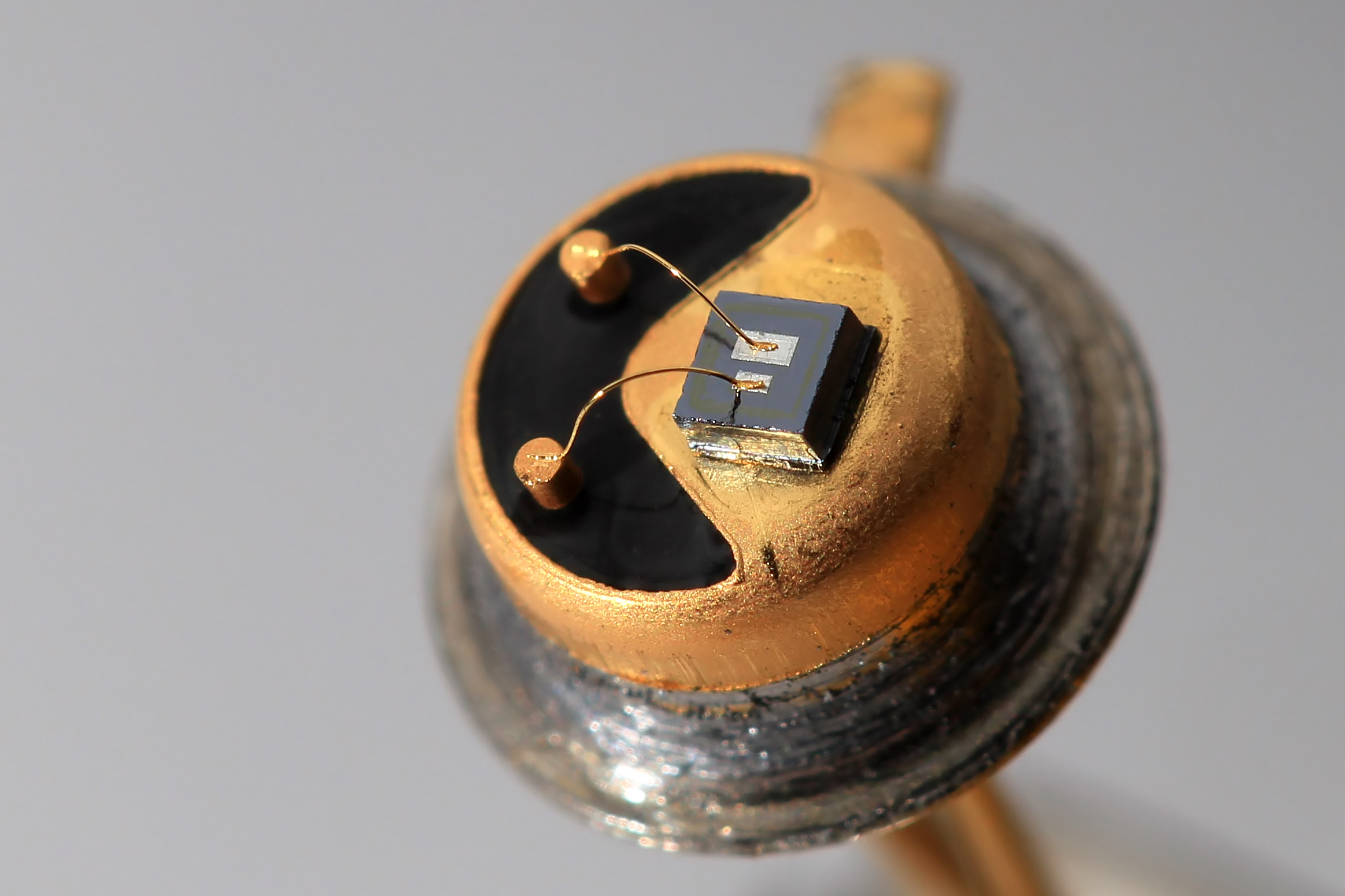 KT117 / 2T117 unijunction transistor cut openTwo visible contacts on the crystal are Emitter (the bigger one) and Base-1 (smaller one). Base-2 is the bottom side of crystal.Nominal B1 to B2 resistance is 4 – 7.5 kΩ for this model, this specimen shows 5.7 kΩ